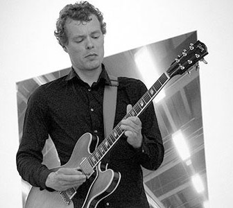 Jakob Bro